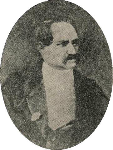 Portrait of Theodor Erdmann Kalide (1801 – 1863)